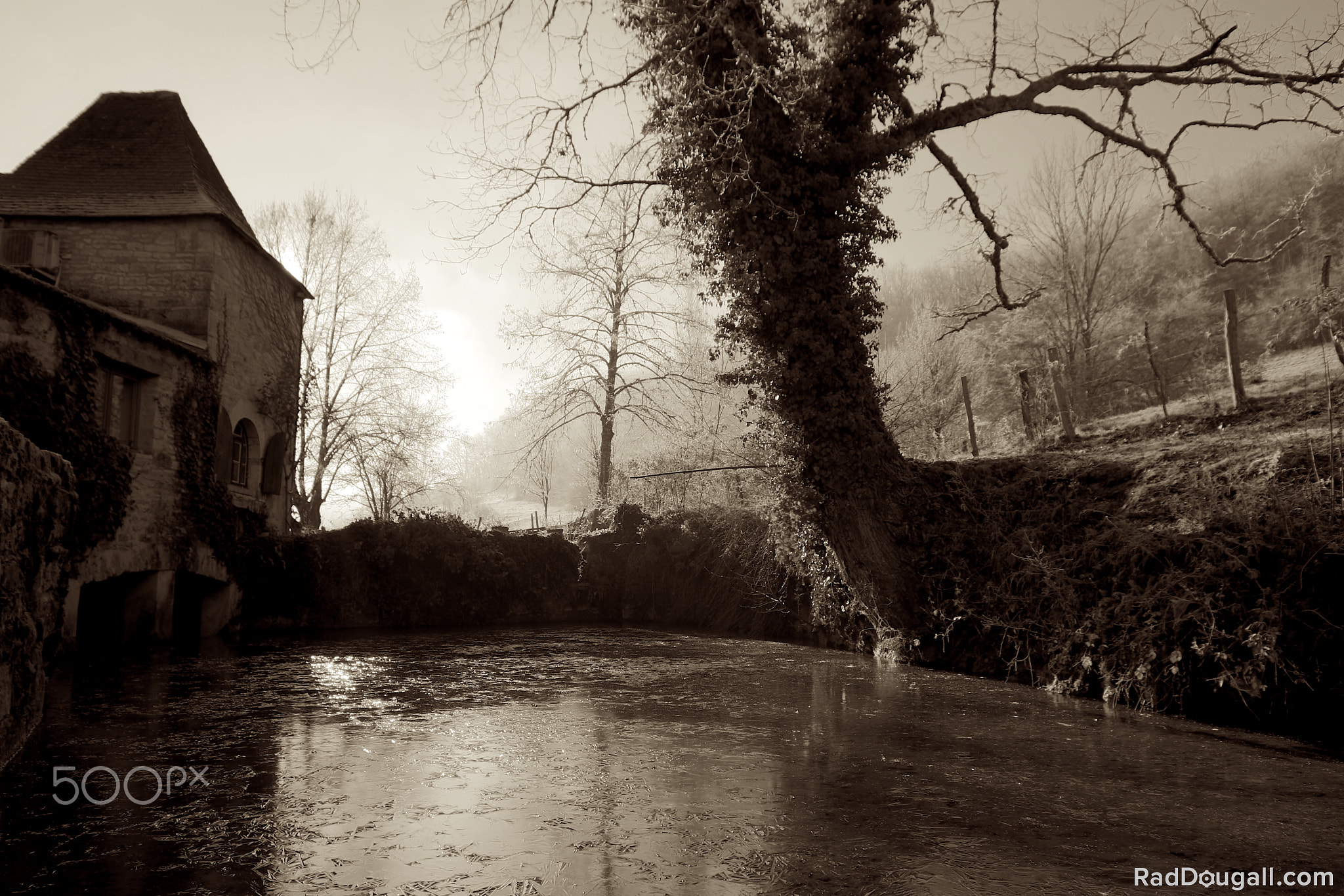 500px provided description: Mill Pond [#hdr ,#winter ,#water ,#reflection ,#old ,#france ,#sepia ,#mill ,#chateau]